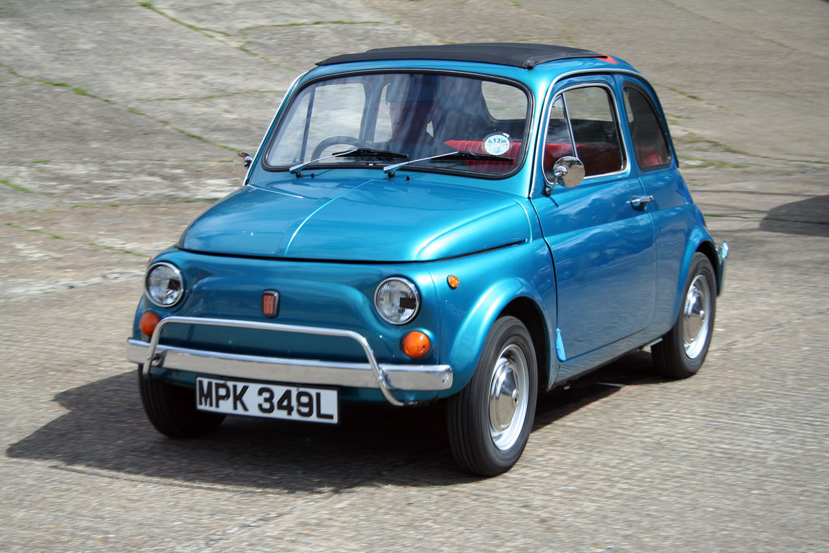 Fiat 500 taken at the Brooklands auto italia day april 2006